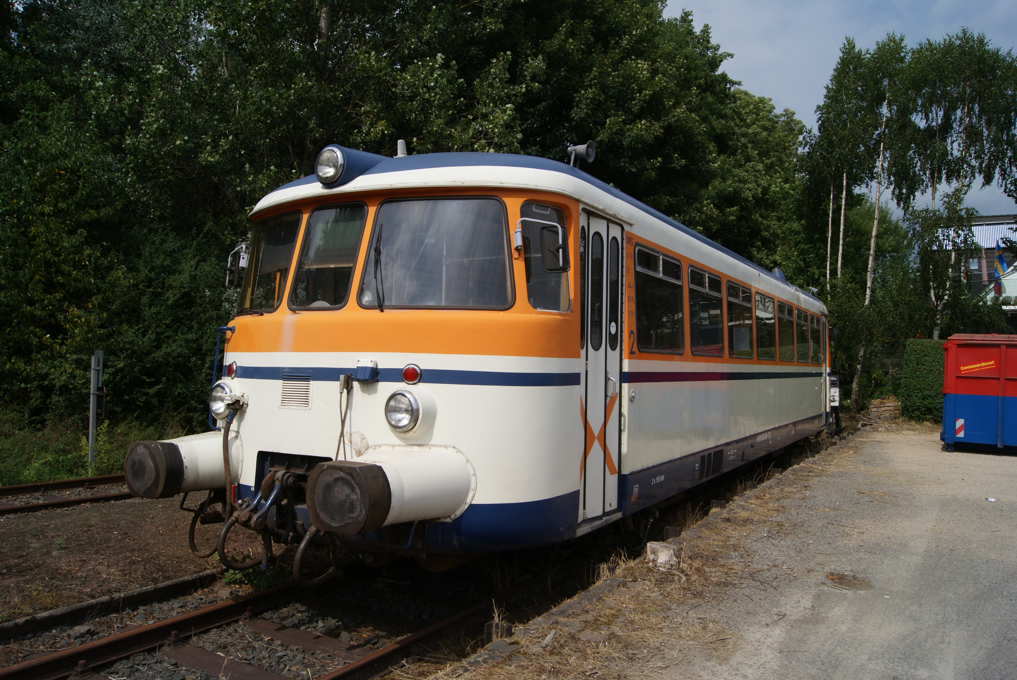 Oleftalbahn rail car in Blumenthal (Eifel)